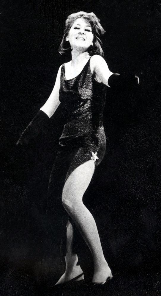 Swedish singer Eva Söderqvist as "Etoile" in Peccoral, as released by image owner Lars Jacob ProdPlace: Tibble Theater, Attundavägen 1, Täby, Sweden